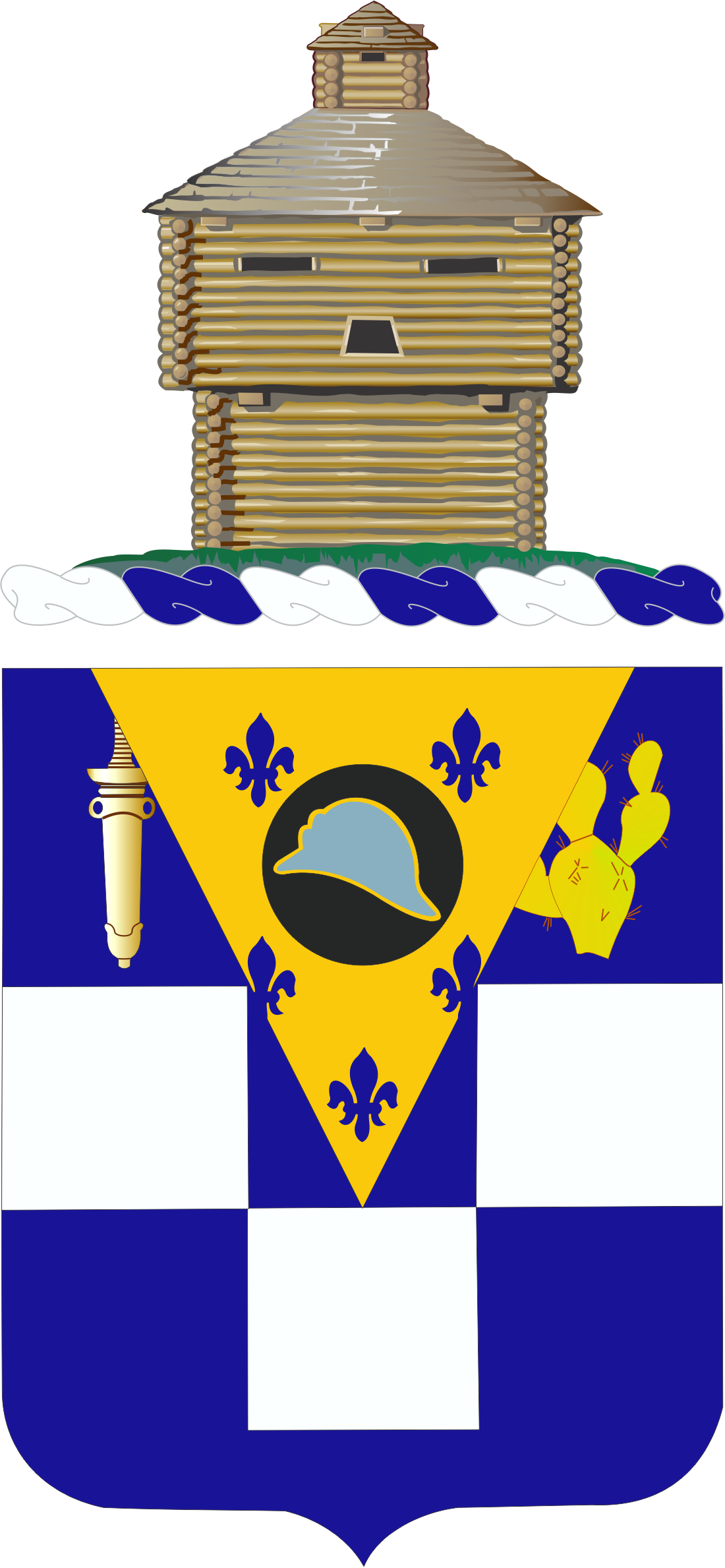 Description/Blazon Shield Azure, a fess rompu debased Argent, a pile with point in break of fess Or, seme-de-lis of the first charged with the shoulder sleeve insignia of the 93d Division Proper fimbriated of the third (a pellet charged with a French trench helmet, horizon blue outlined in Gold); in chief partly obscured by the pile on dexter side a Roman sword in pale point to base, on sinister side a prickly pear cactus, all Or. Crest That for the regiments and separate battalions of the Illinois Army National Guard: On a wreath of the colors Argent and Azure, upon a grassy field the blockhouse of old Fort Dearborn, all Proper. Motto ONE COUNTRY-ONE FLAG. Symbolism Shield The shield is blue for Infantry; the white fess rompu (broken) represents the Hindenburg Line, while the 370th Infantry (predecessor unit) is represented by the gold pile (wedge) which broke the line; the seme-de-lis is for the Oise-Aisne Operation which was in that province of France whose arms are a blue field with gold fleurs-de-lis ? the tinctures on the wedge being reversed so as not to get a blue pile on a blue field; the pellet with the helmet is the shoulder sleeve insignia of the 93d Division and indicates the service of the 370th Infantry as a unit of this Division during World War I, the gold Roman sword is taken from the Spanish War medal for non-combat duty, while the cactus represents duty on the Mexican Border. Crest The crest is that of the Illinois Army National Guard. Background The coat of arms was originally approved for the 8th Infantry Regiment on 9 November 1925. It was redesignated for the 184th Field Artillery Regiment on 23 December 1940. It was redesignated for the 184th Field Artillery Battalion on 6 April 1950. The insignia was redesignated for the 178th Infantry Regiment on 13 June 1961.